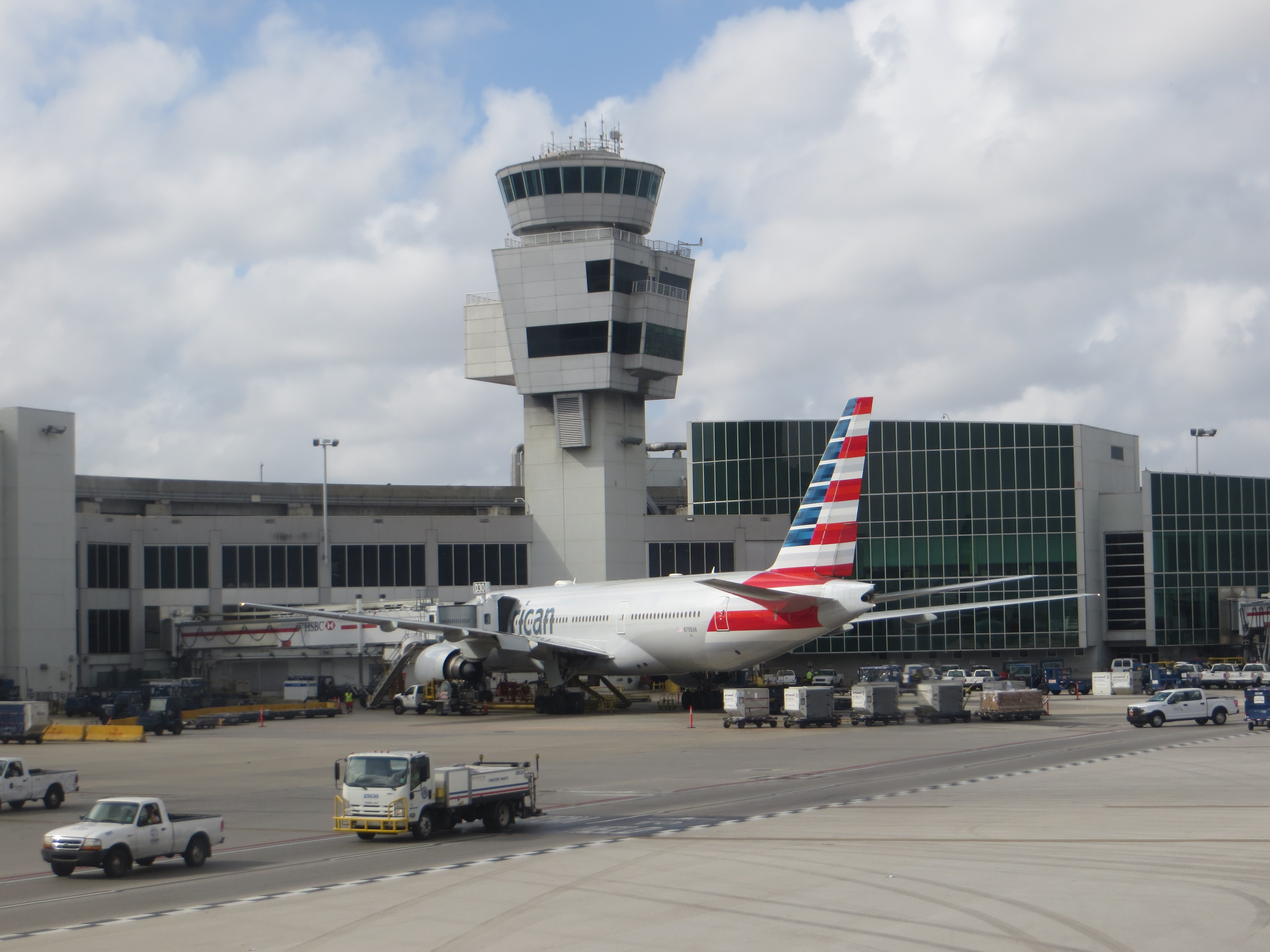 American Airlines Boeing 777-200ER registered N798AN at Miami International Airport, USA.